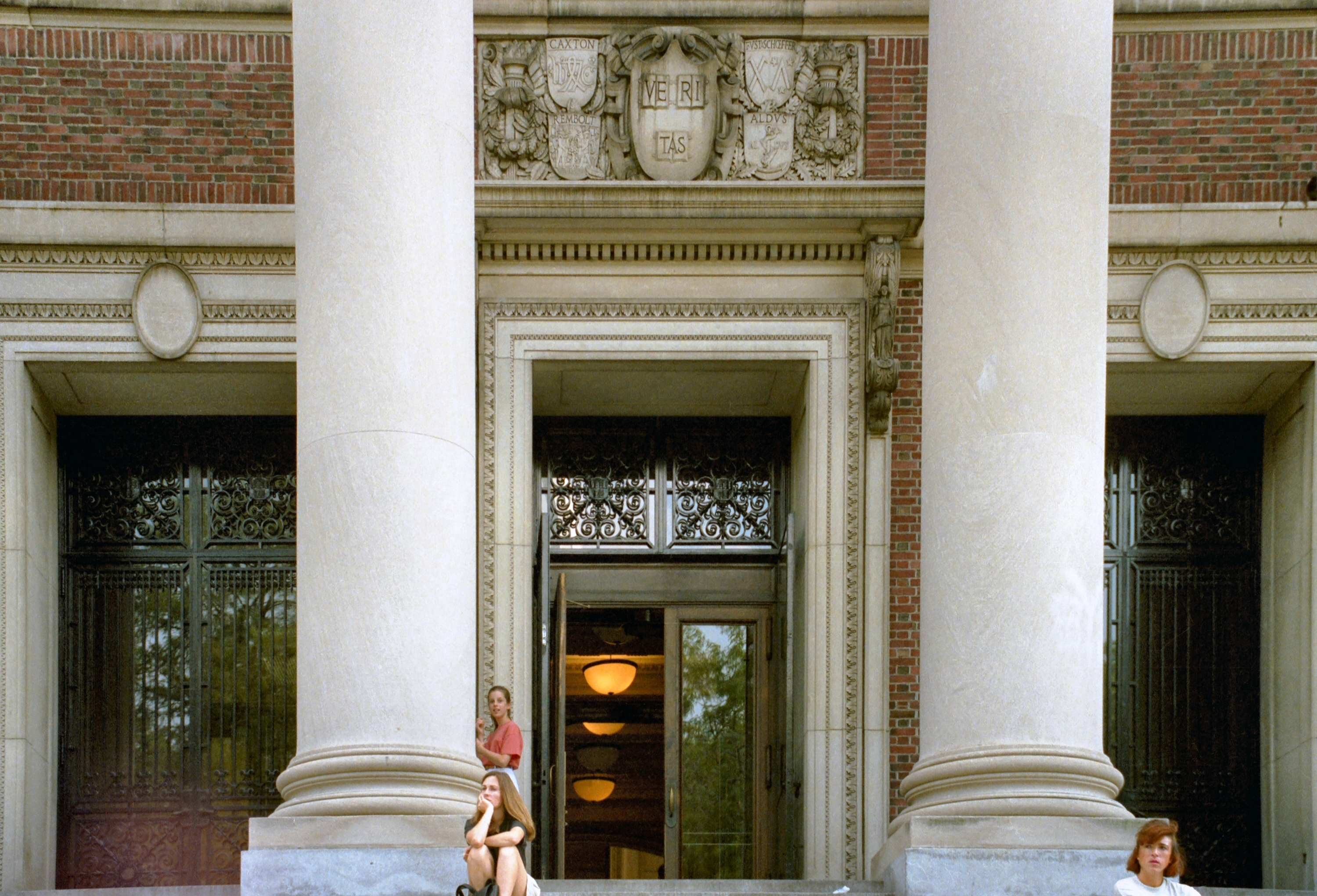 Main Entry Door, Harry Elkins Widener Memorial Library, Harvard University